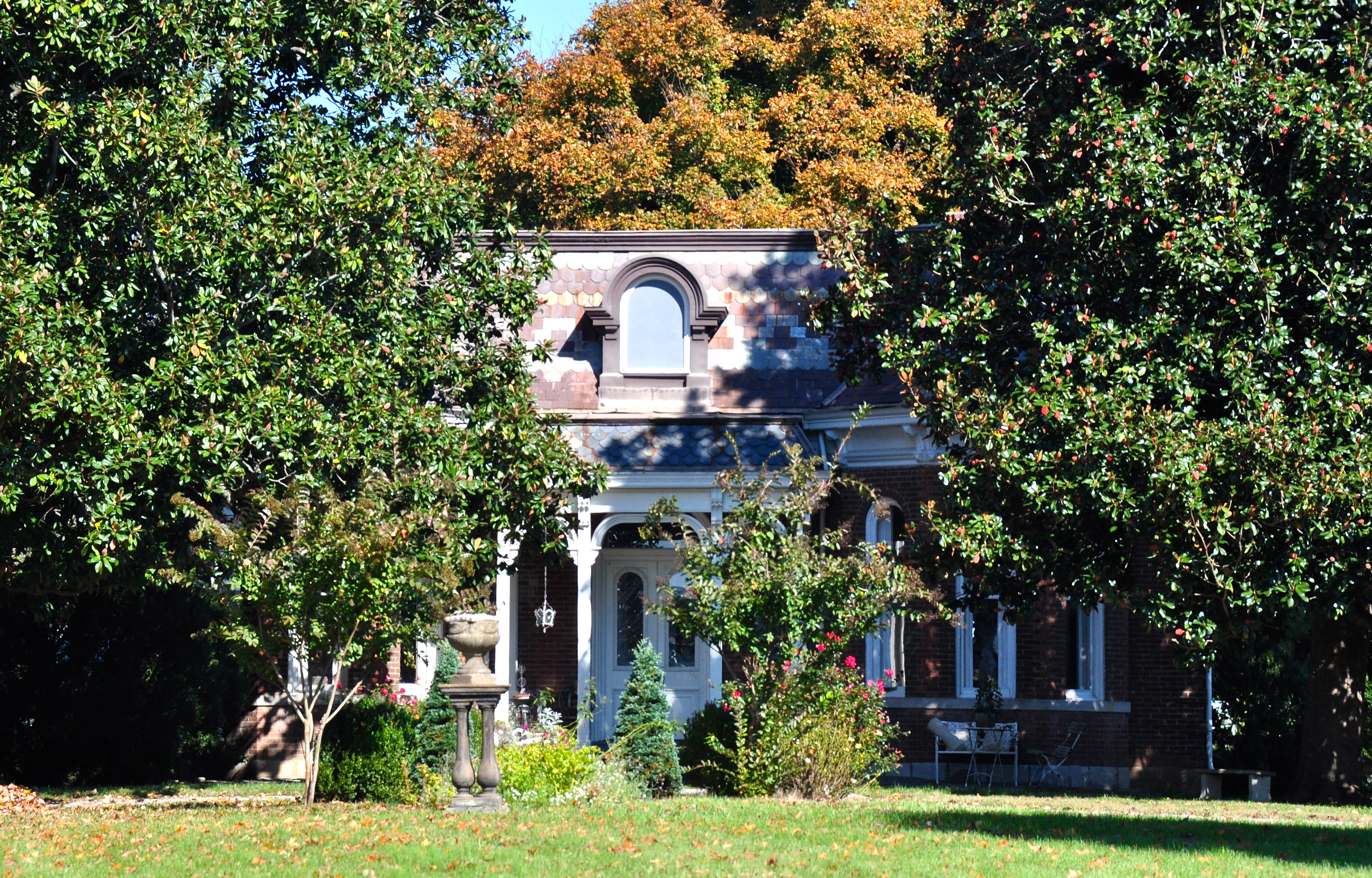 Y.M. Rizer House, Del Rio Pike, 0.75 miles (1.21 km) west of Hillsboro Rd. Franklin.